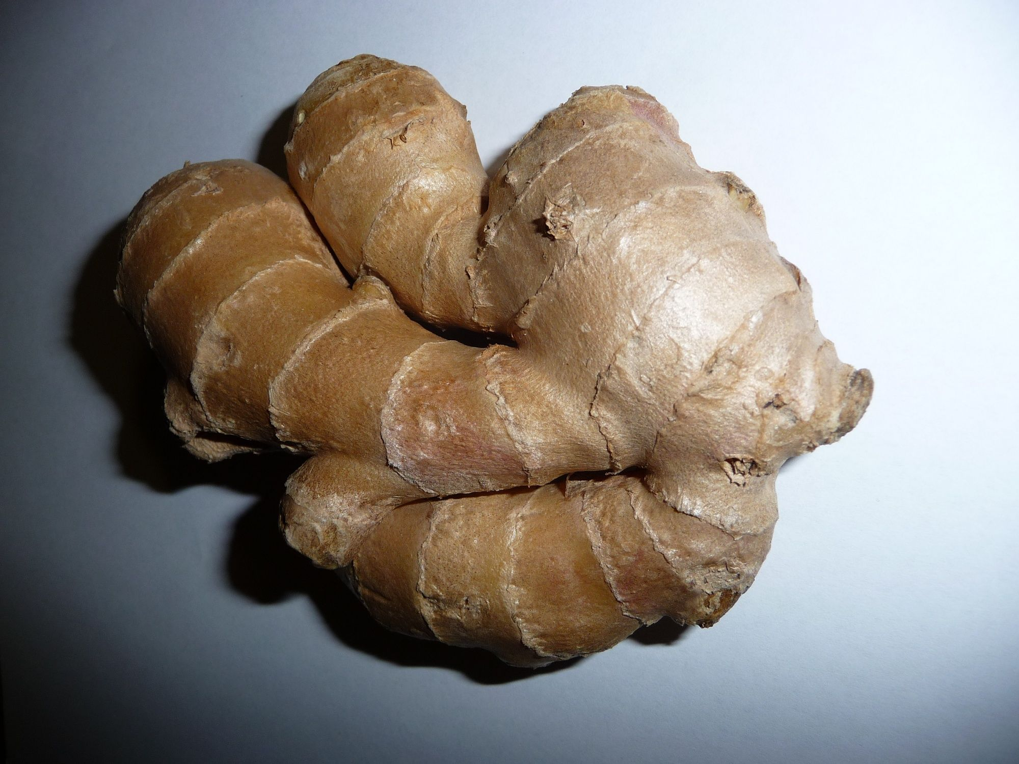 [Ginger]